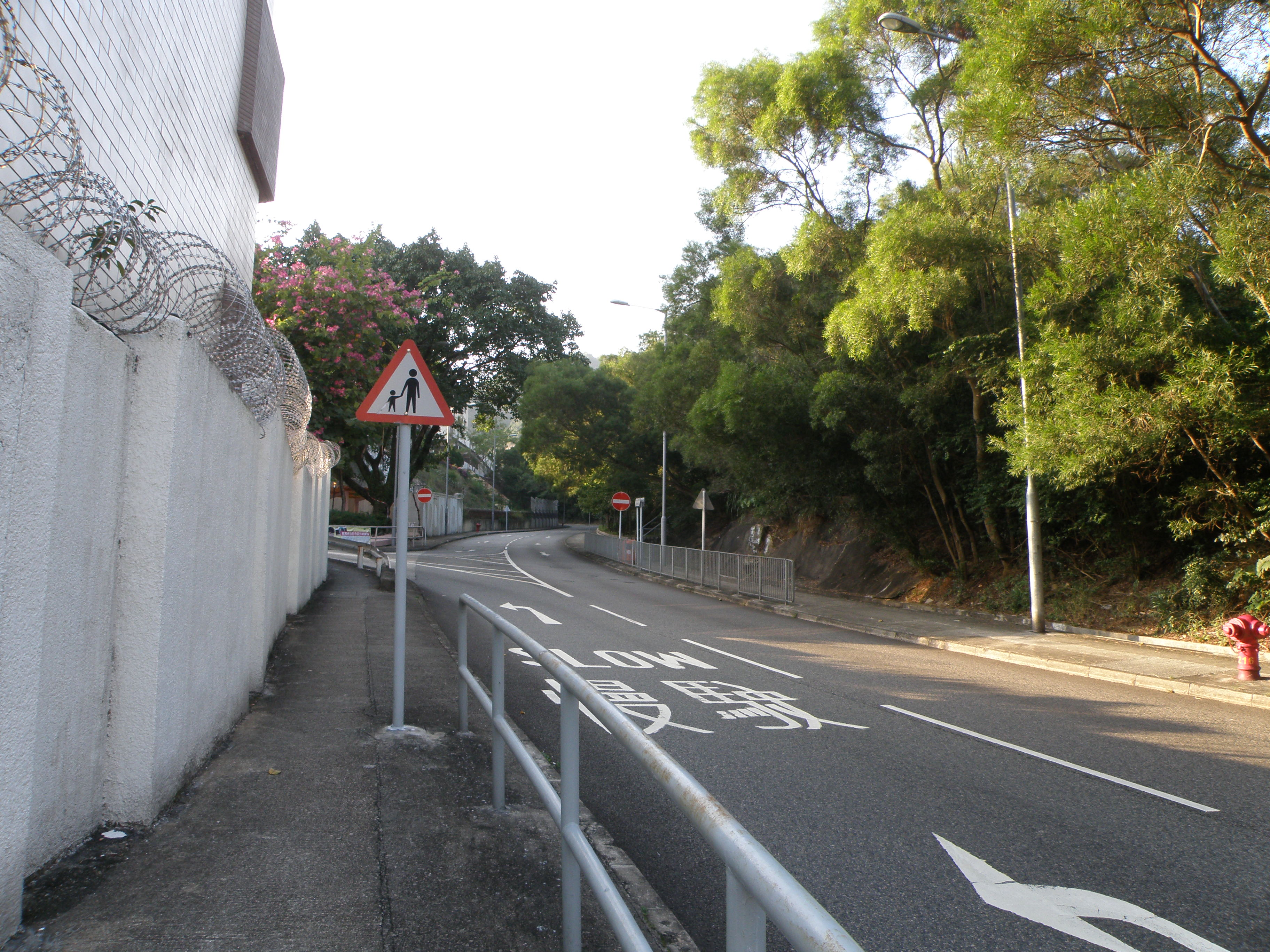 Lok Lam Road in Fo Tan, Hong Kong.